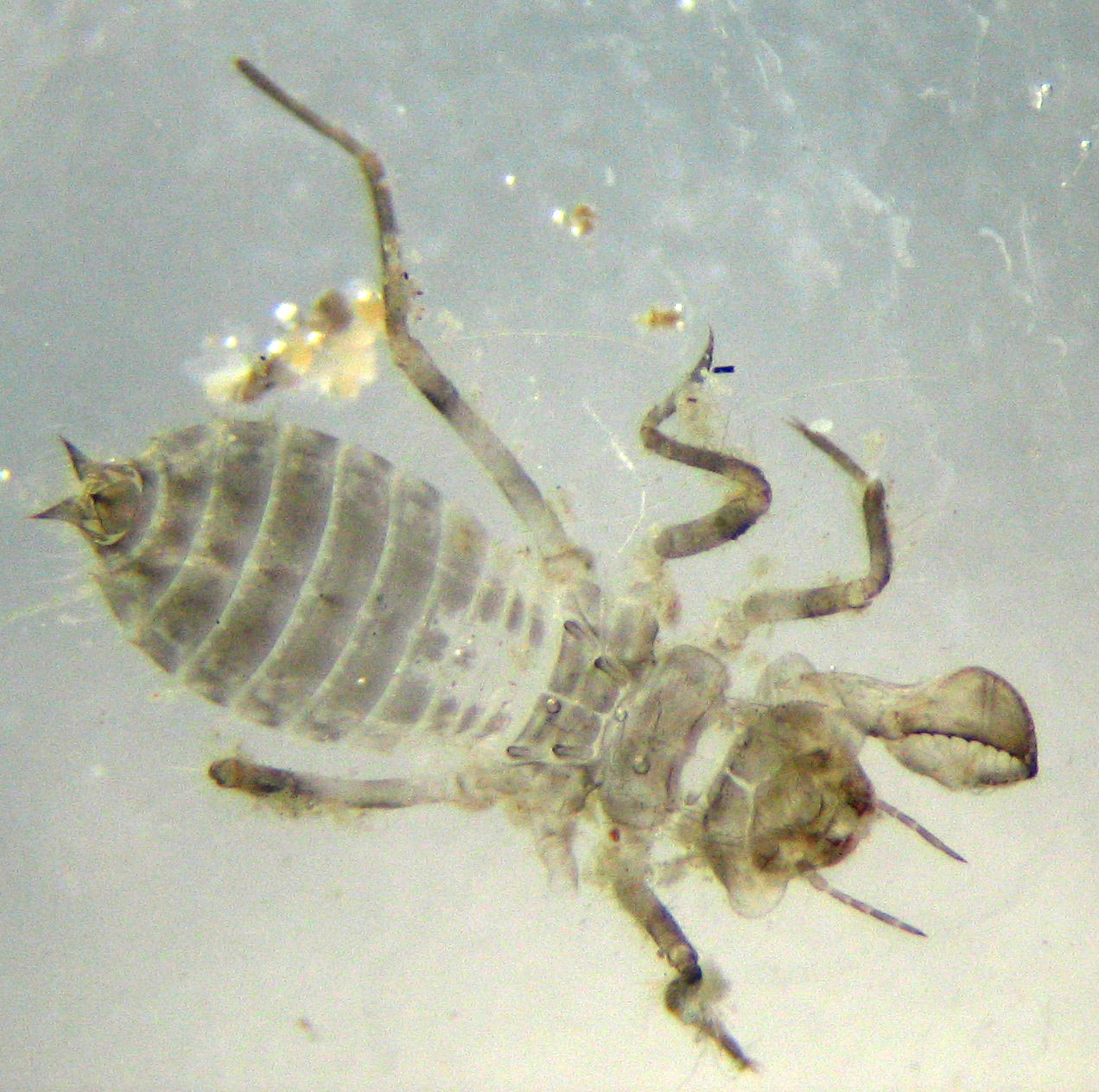 Exuvia of a larva of a dragonfly. About 8 mm long. Location: 11 week old garden pond in Munich, Germany. Photographed with a digital consumer Camera through the okkular of a stereo microscope. According to this discussion the genus is Libellula, the species is, most likely, Libellula depressa or, less likely, Libellula quadrimaculata.